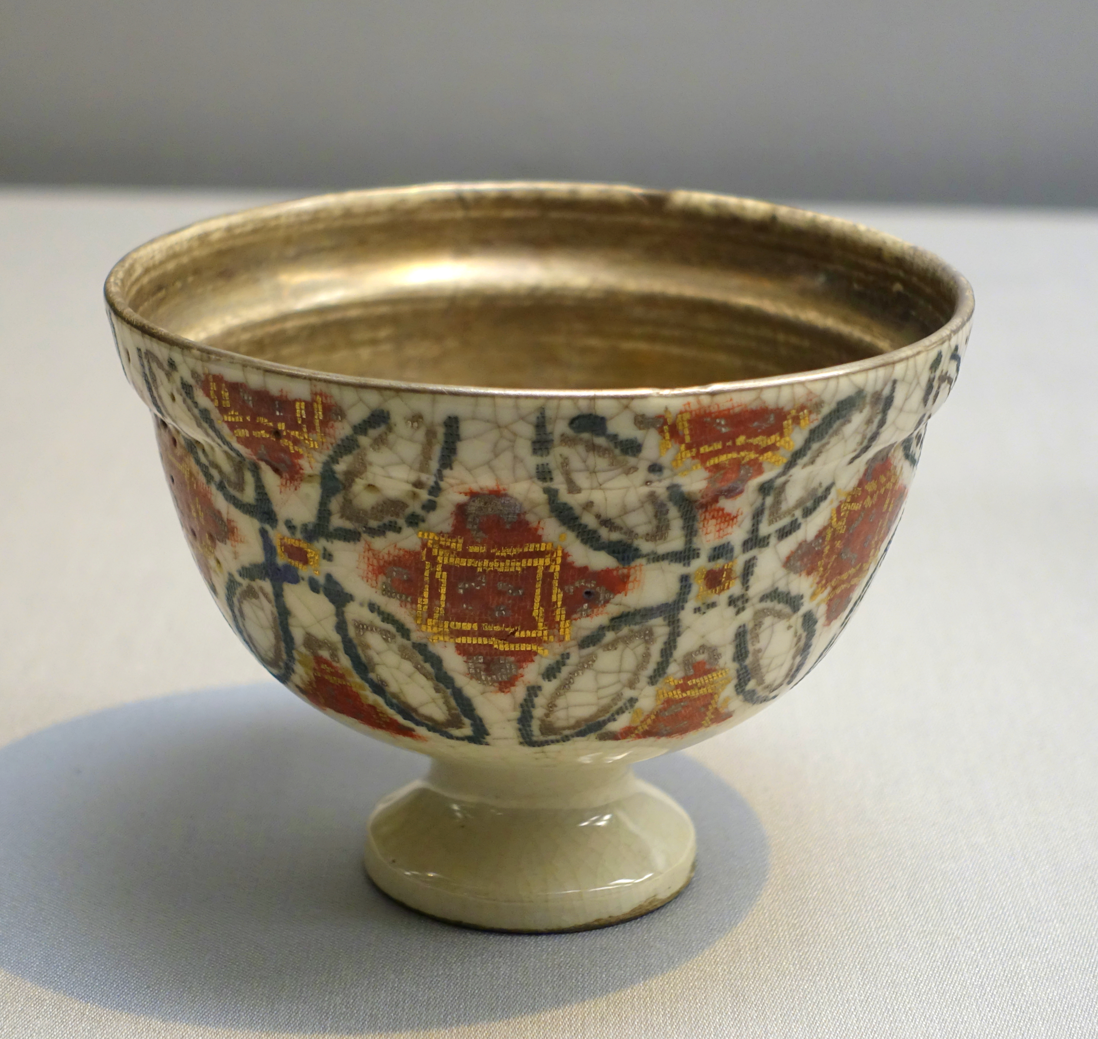 Exhibit in the Tokyo National Museum, Tokyo, Japan. This work is old enough so that it is in the public domain.